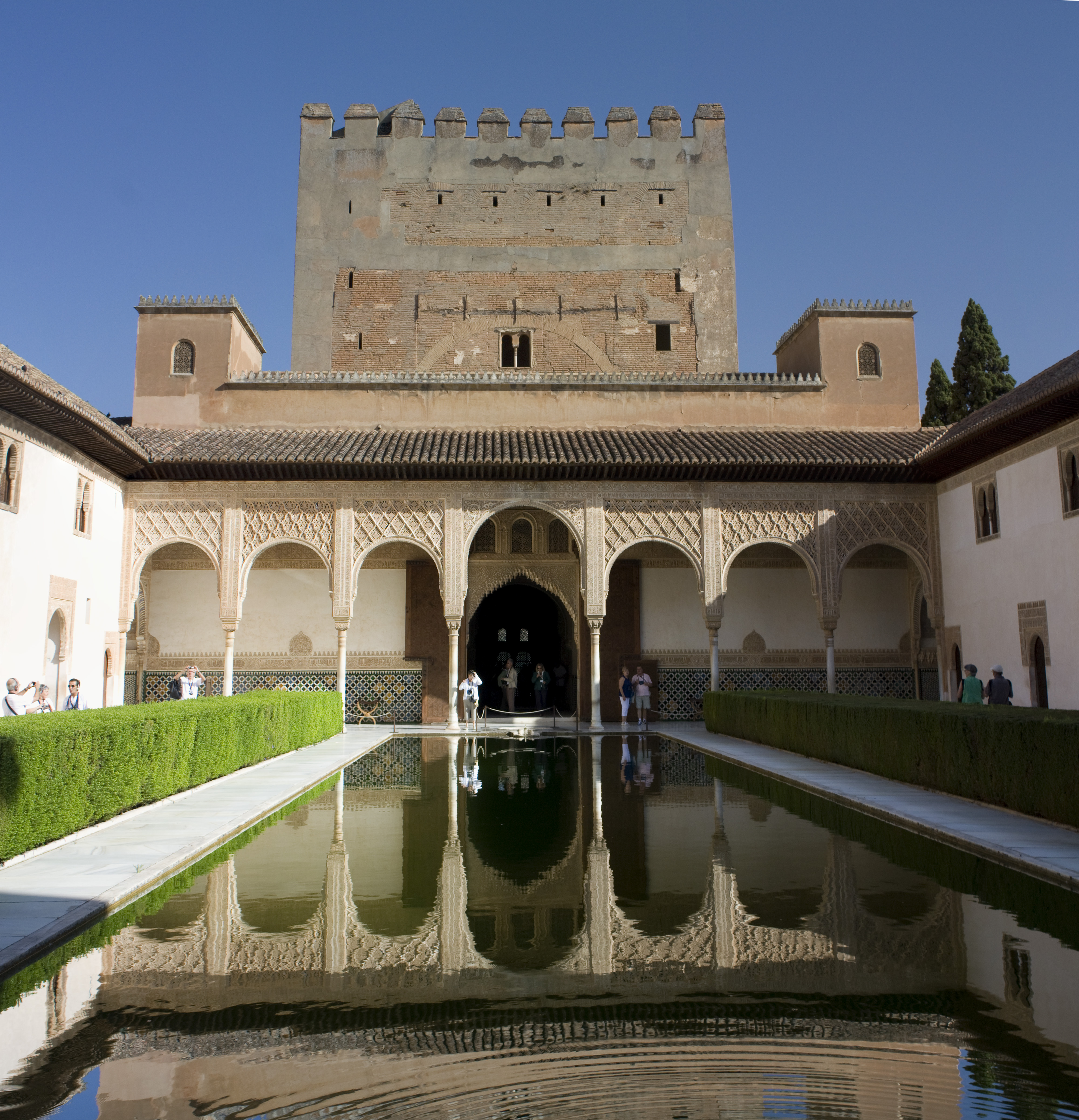 Basin of the Patio de Arrayanes.